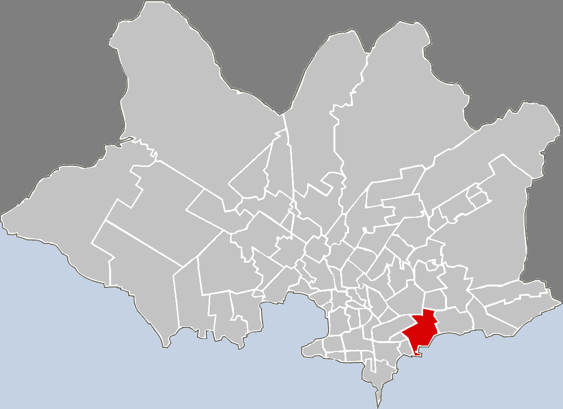 Map highlighting the given barrio in Montevideo.